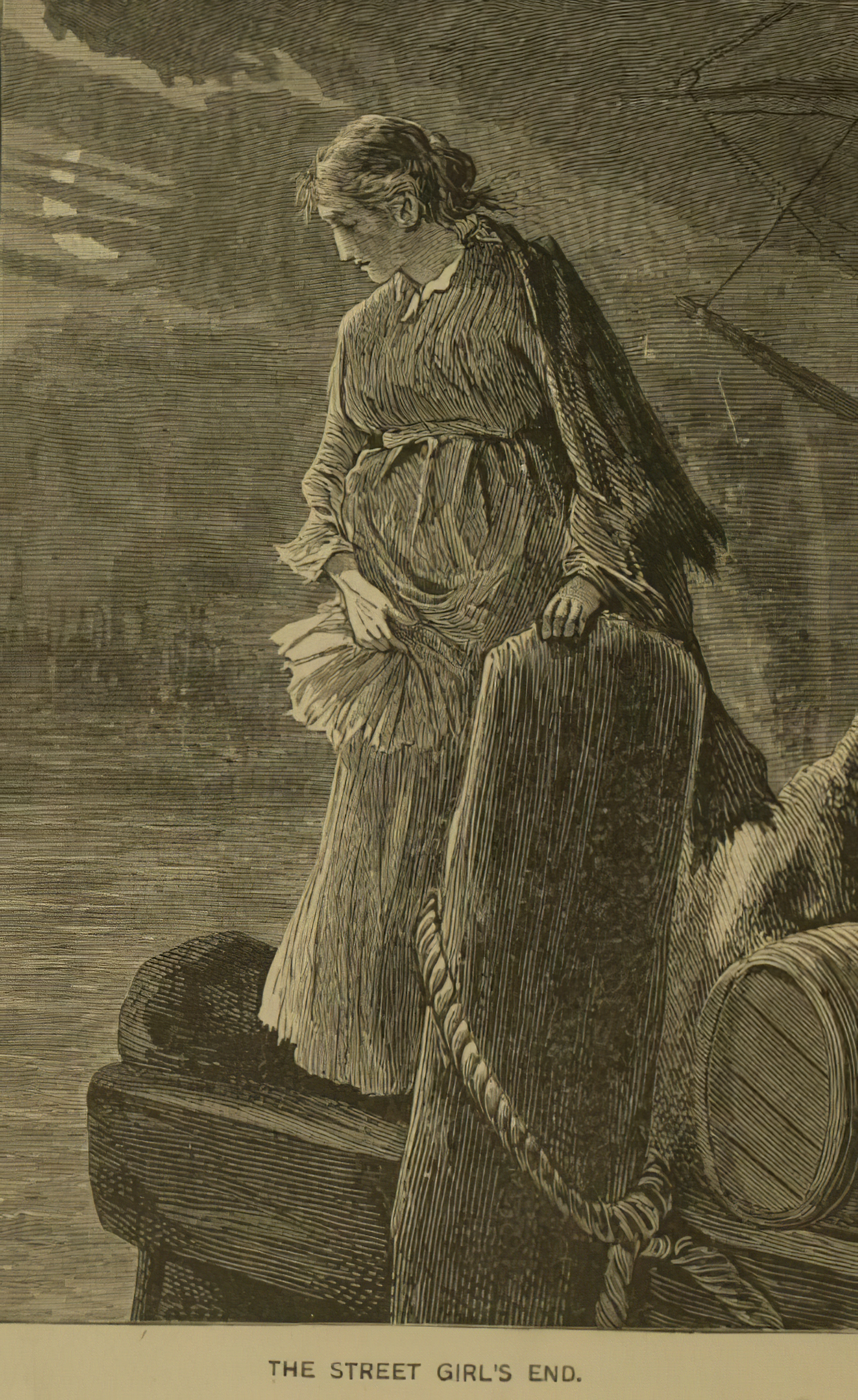 Illustration from below book